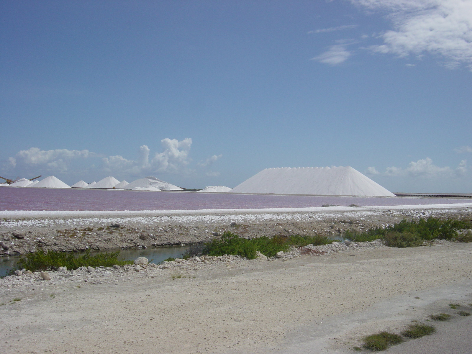 Solar Salt Works in southern Bonaire